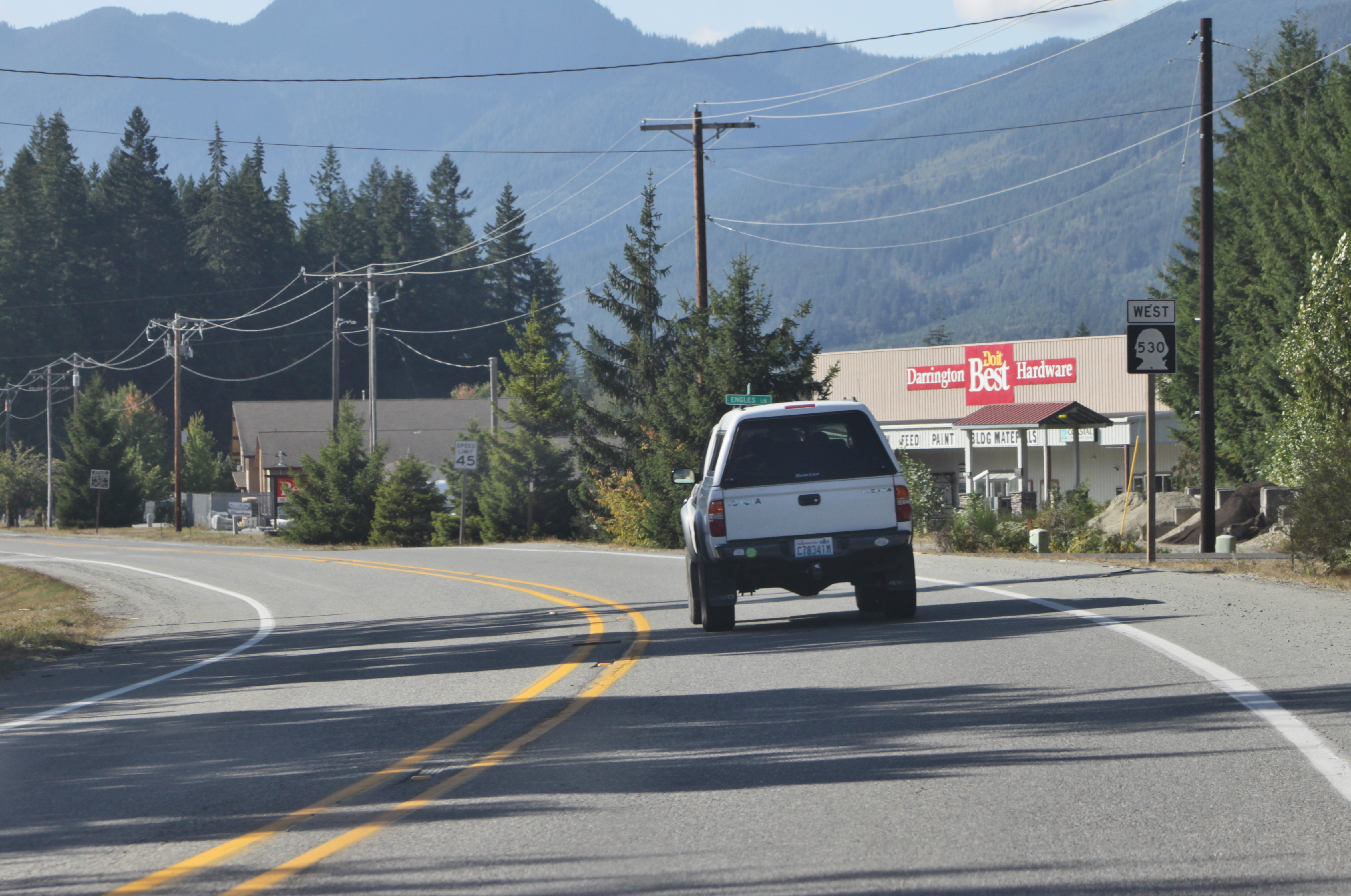 Looking westbound on Washington State Route 530 in downtown Darrington, Washington